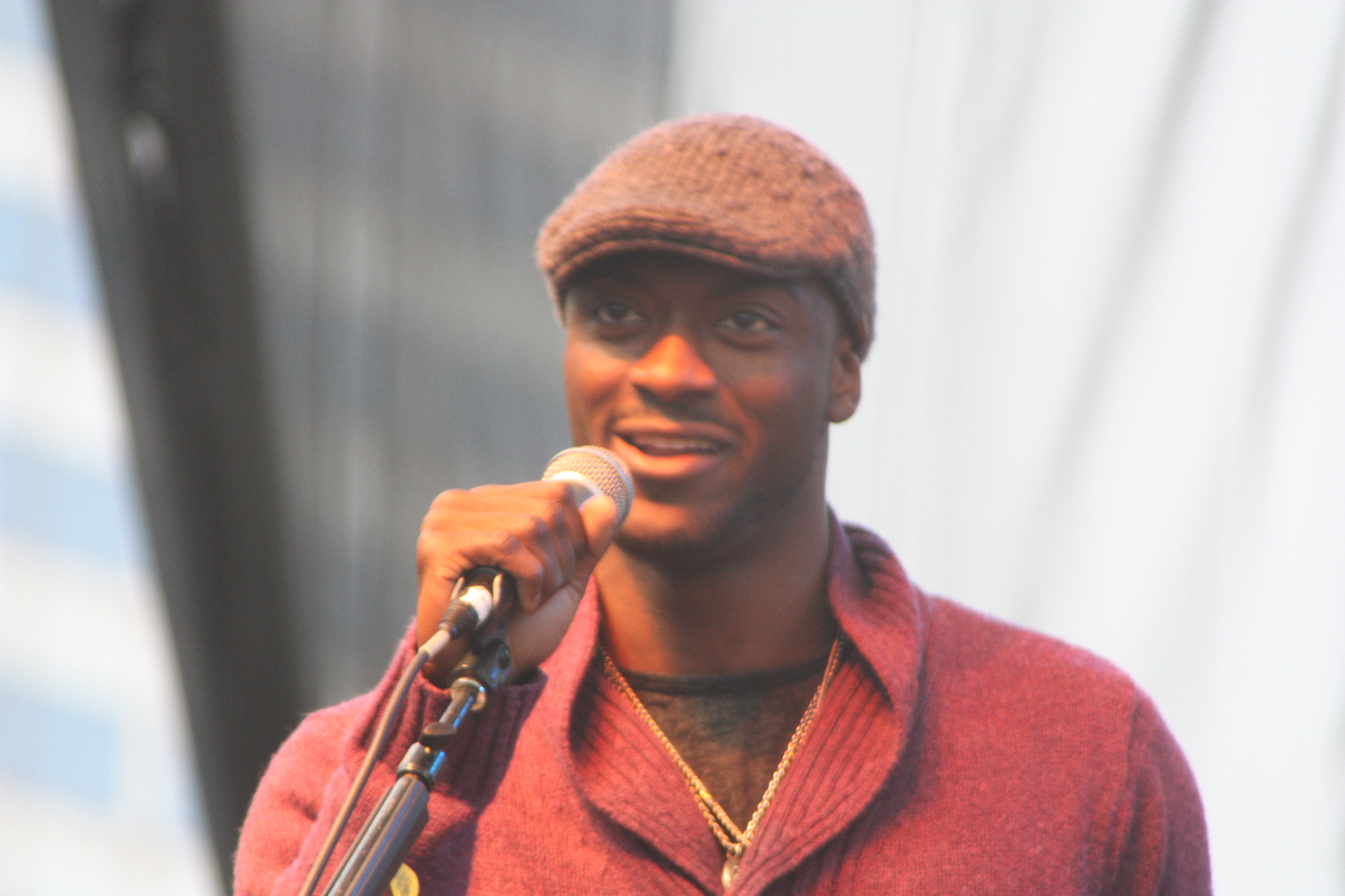 Aldis Hodge in 2011